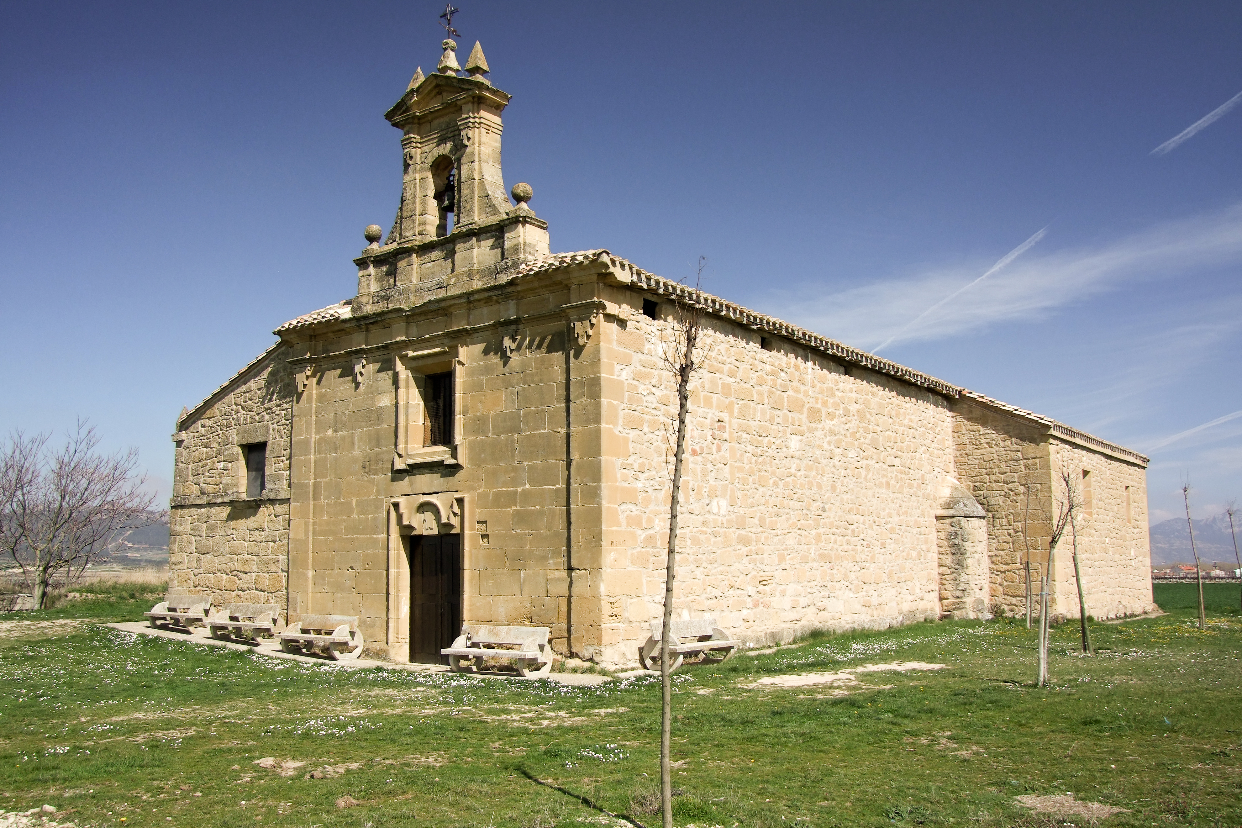 Ermita de Tironcillo en la localidad de Cuzcurrita, La Rioja - España